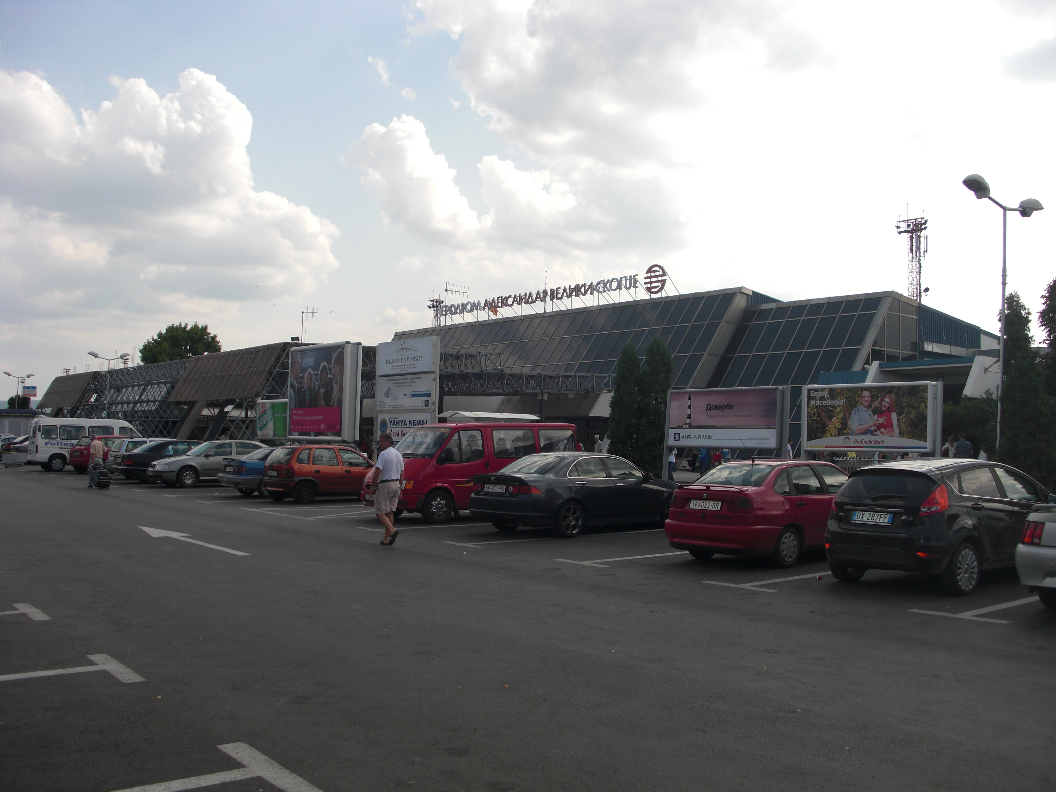 The old terminal building of Skopje Alexander the Great airport, Macedonia